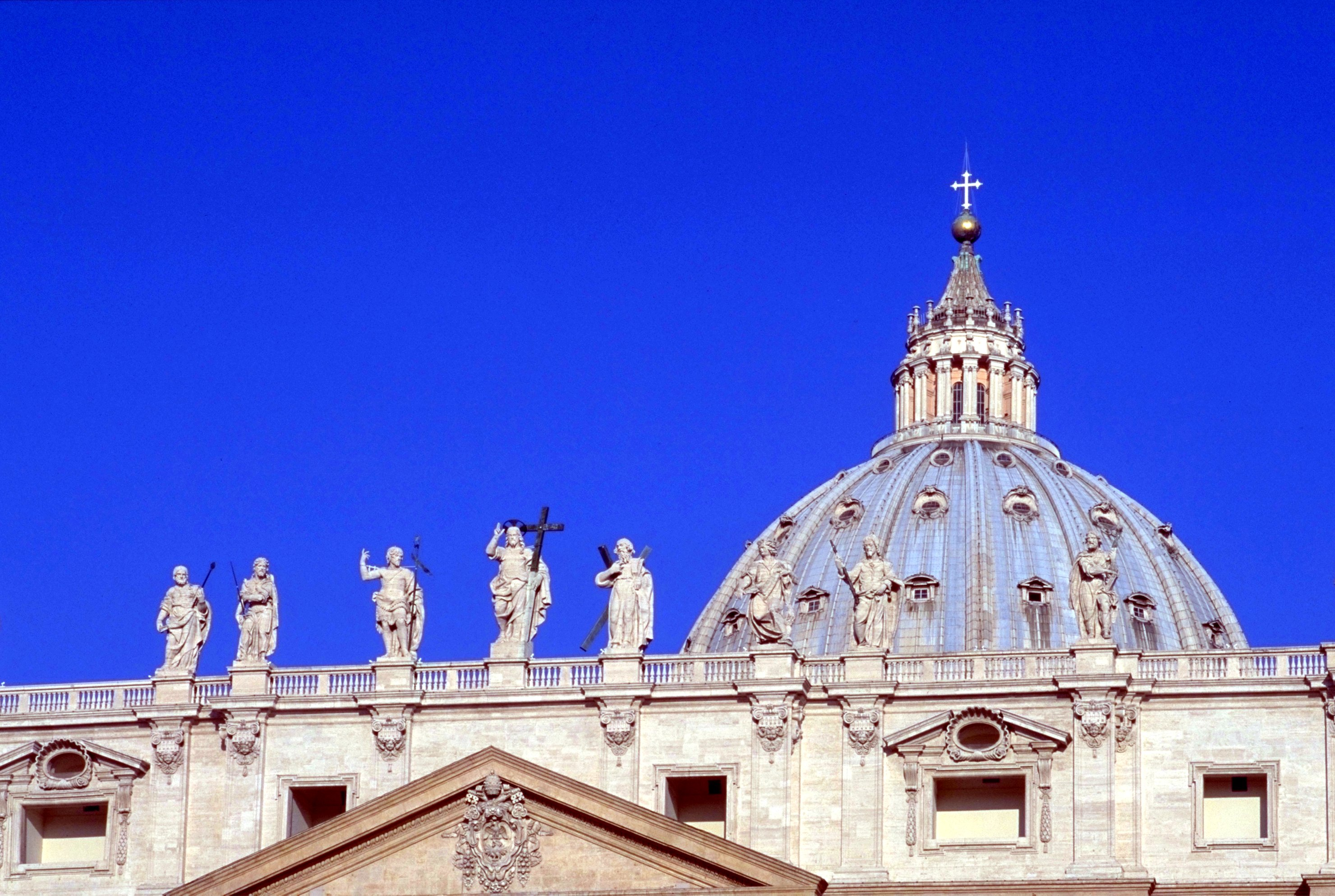 Angel on Sant'Angelo Bridge in background Basilica di San Pietro (view at night); Remark: This image was not uploaded by the author and thus has not the usual quality. A better version will be uploaded (sooner or later, explicite requests for speedy upload are welcome) Photo was taken using the following technique: Film: Fuji Velvia Lens: 2.8/100 Macro * 1.4 Filter: Body: Minolta 9000 Support: Manfrotto 190B Image with Information in English Bild mit Informationen auf Deutsch